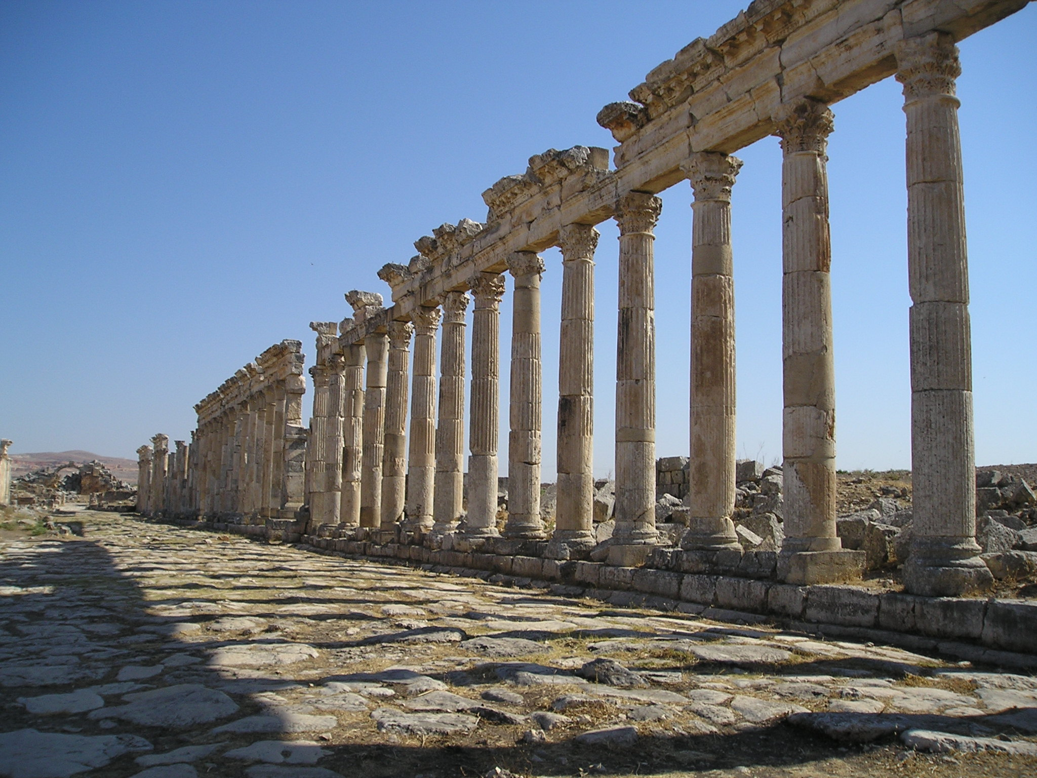 Apamea, Syria - pillars along the Cardo (main north-south street)